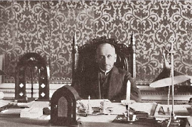 Image of Sergey Dimitievitch Sazonov (1860 - 1927), Minister of Foreign Affairs of Imperial Russia from 1910 to 1916